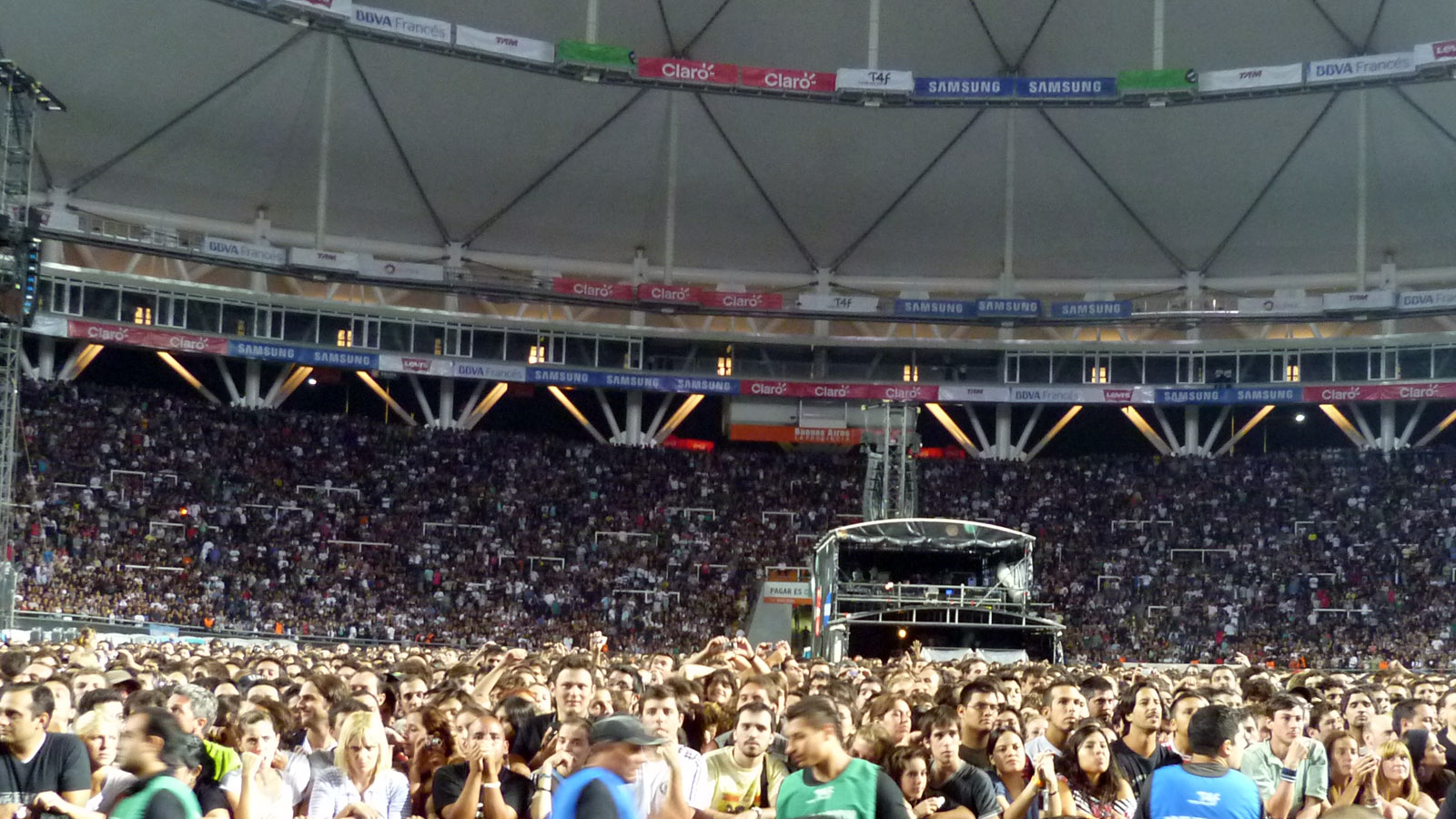 View from inside the stadium during the tour 360 ° Tour of the Irish band U2. La Plata, March 30, 2011.